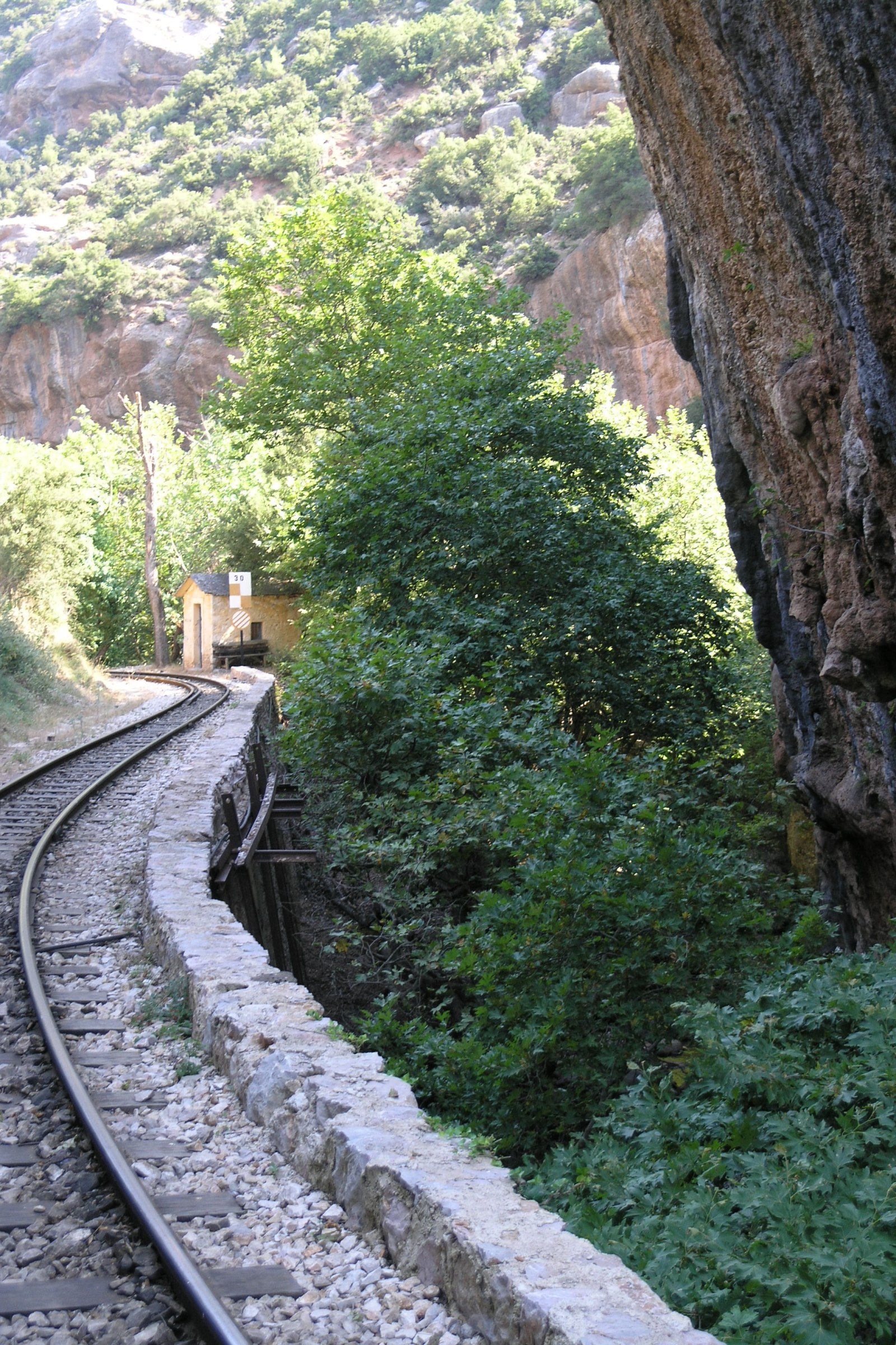 Diakofto Kalavrita Railway